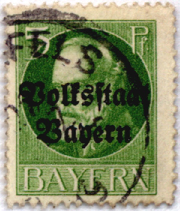 series of stamps of Bavaria, Ludwig III, King of Bavaria (1845–1921), with overprint “Volksstaat Bayern” (People's State Bavaria)